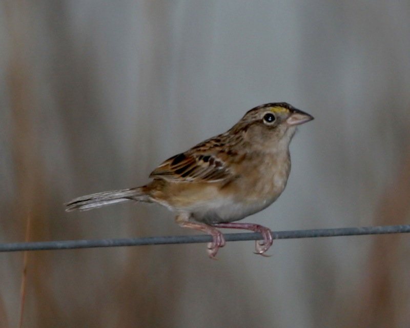 Grassland Sparrow (Ammodramus humeralis) at Iguasu Falls, Argentina. also known as Chachilo ceja amarilla, Manimbe, Tico-tico-do-campo-verdadeiro, Chingolo de terra